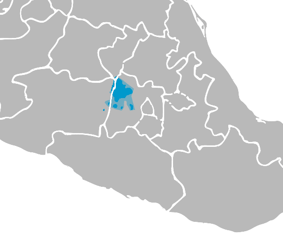 Mazahua language actual extension and earliar probable area in 16th century